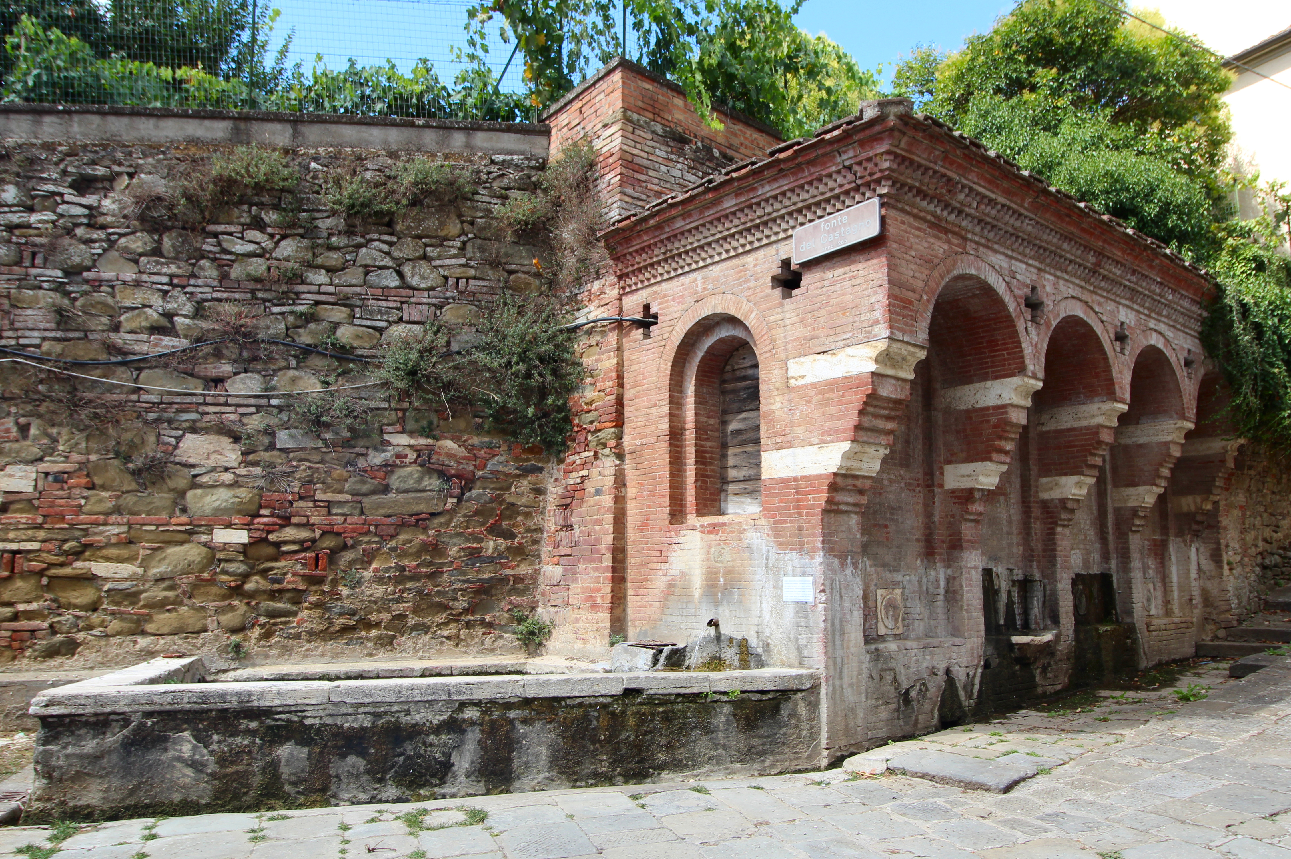 Fountain Fonte del Castagno, City Center of Sinalunga, Province of Siena, Tuscany, Italy